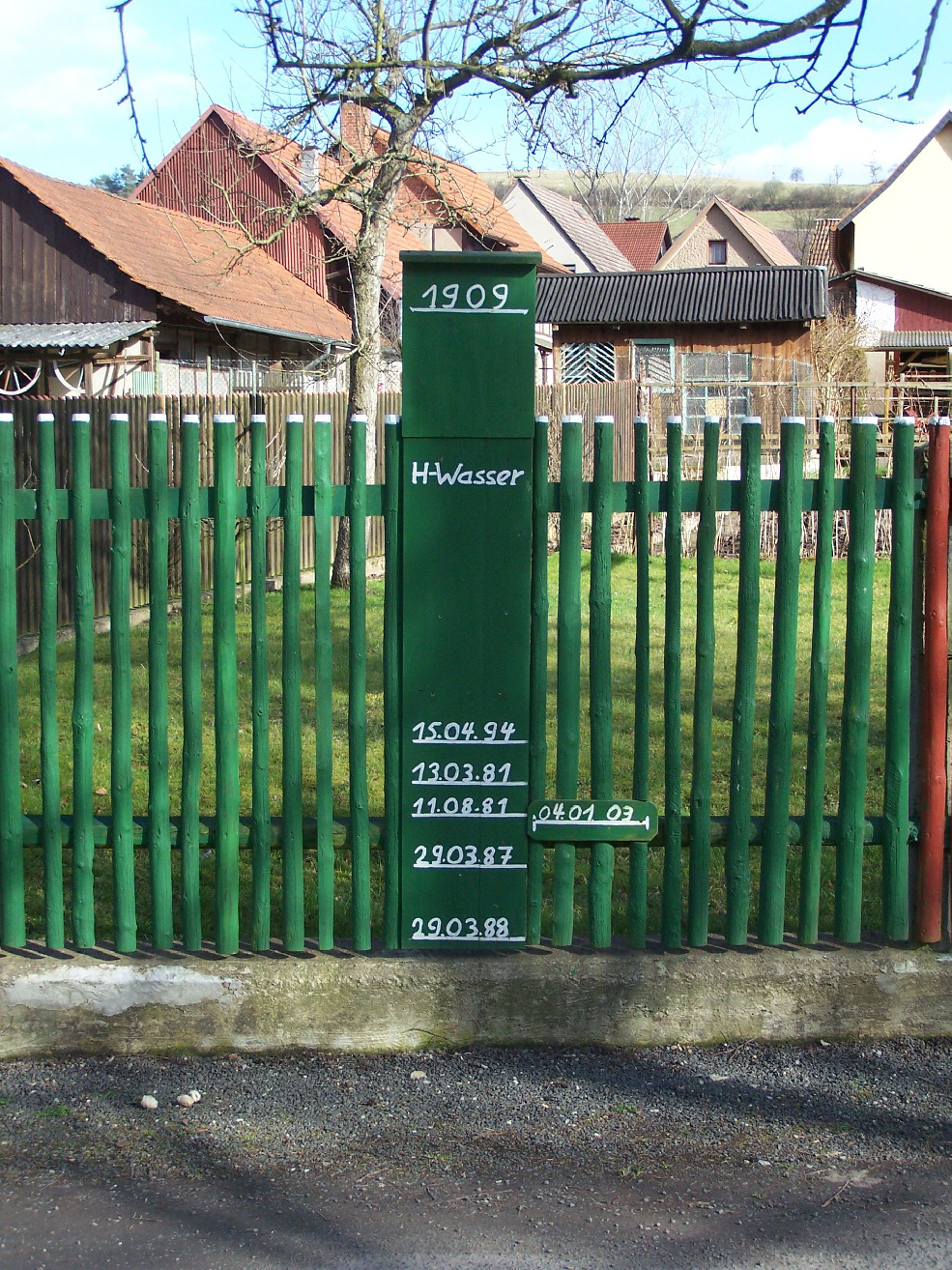 High water marking in Frankenroda at riversite.